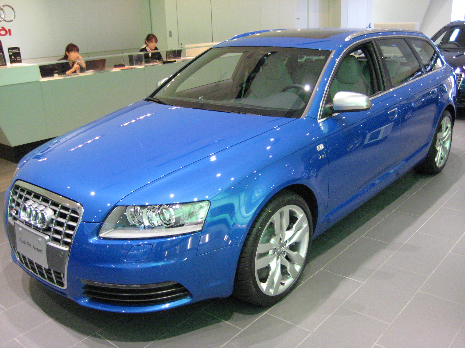 Audi S6 Avant in Audi Forum Tokyo